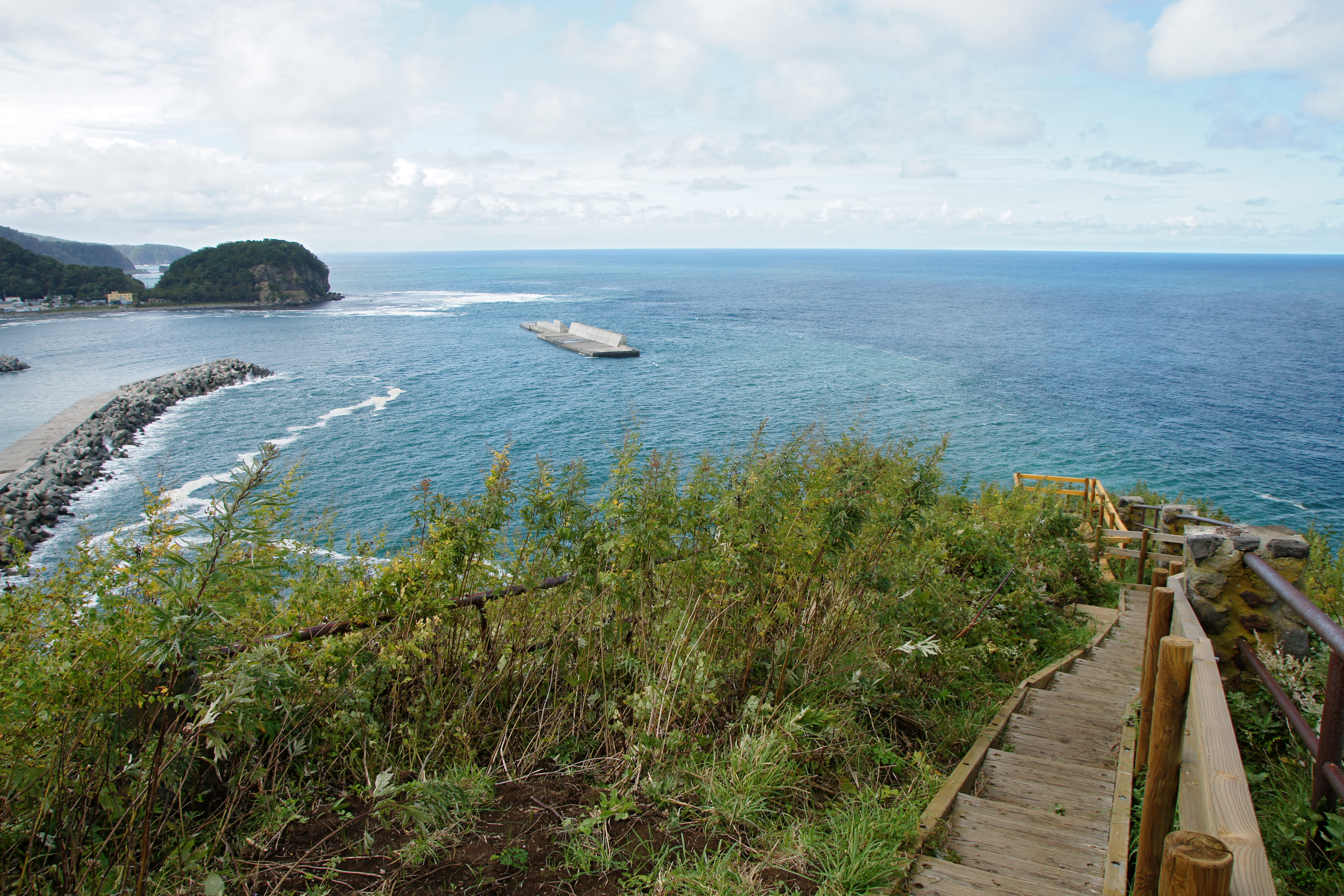 Oronko_Rock in Shari, Hokkaido prefecture, Japan